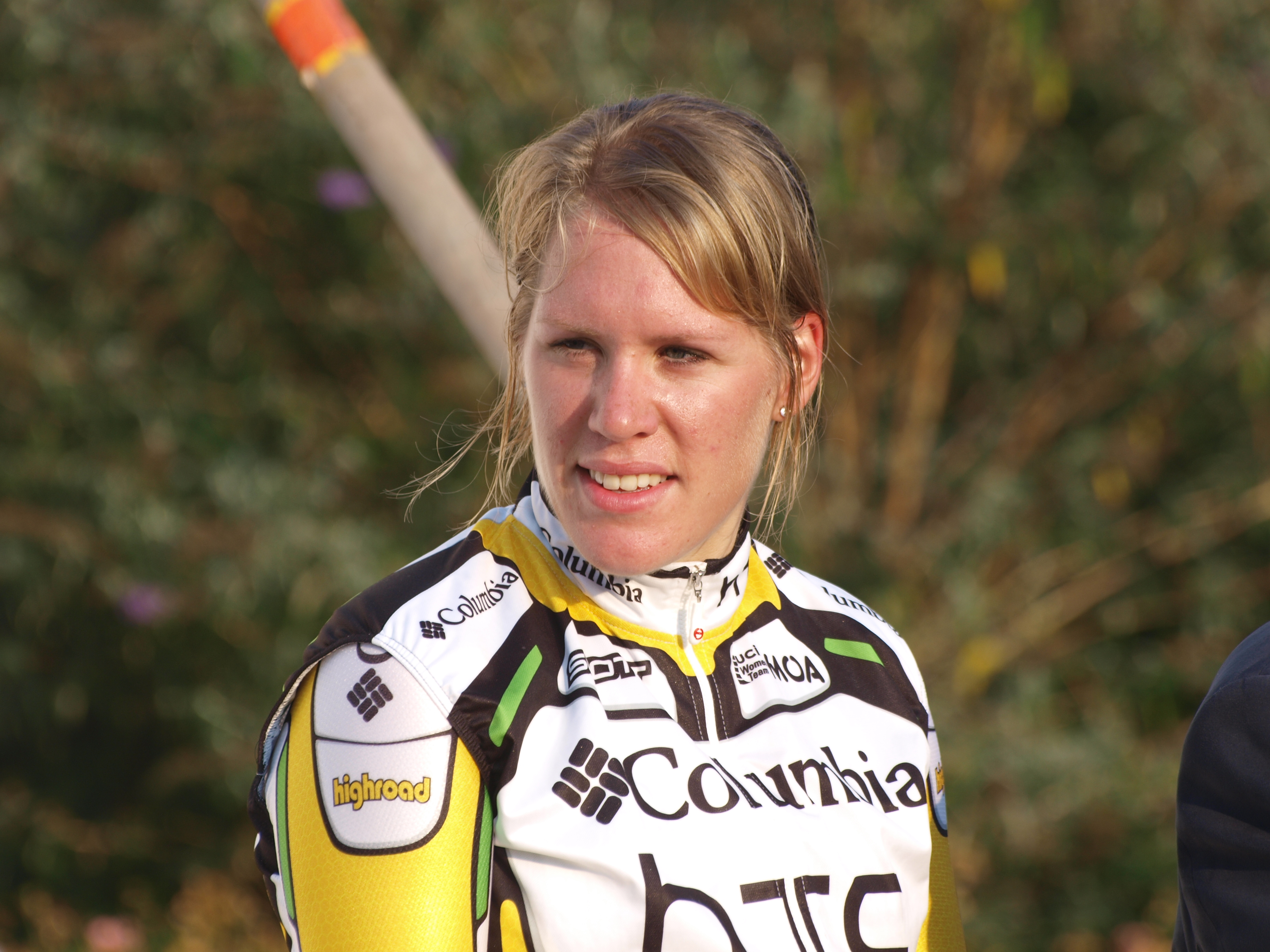 Ellen van Dijk, Dutch cyclist, during the Dutch time trial championships, in which she placed third